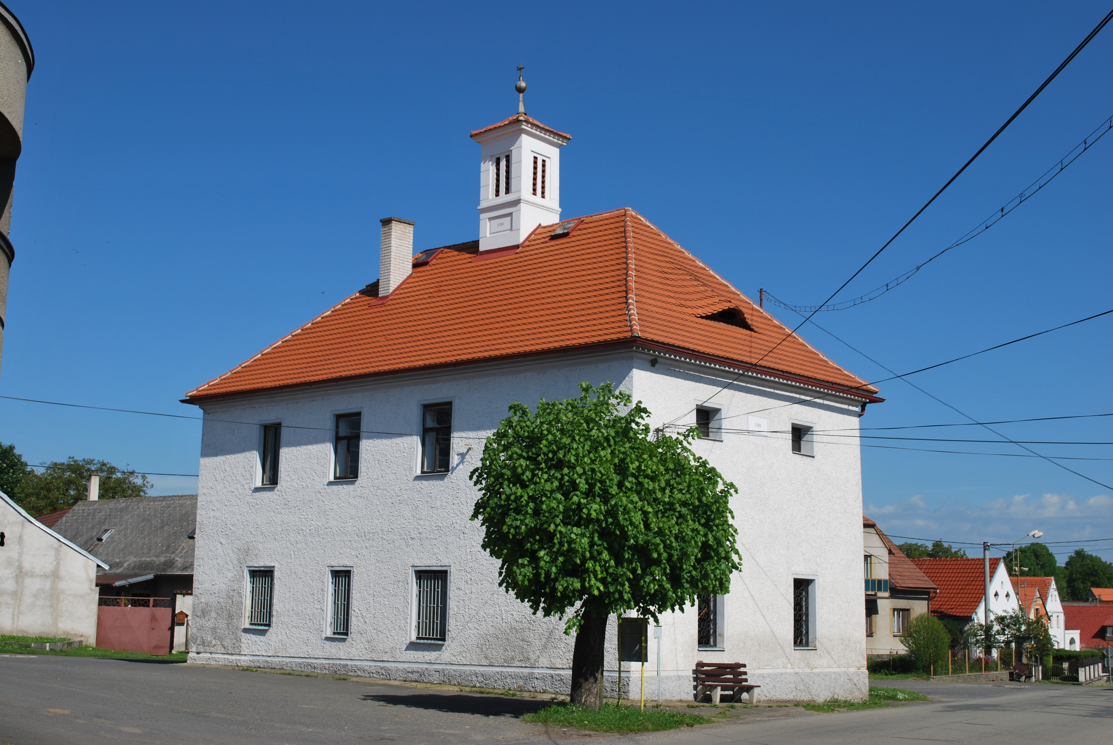 Soběšice village in Klatovy District, Czech republic. This photograph was taken within the scope of the 'Czech Municipalities Photographs' grant.